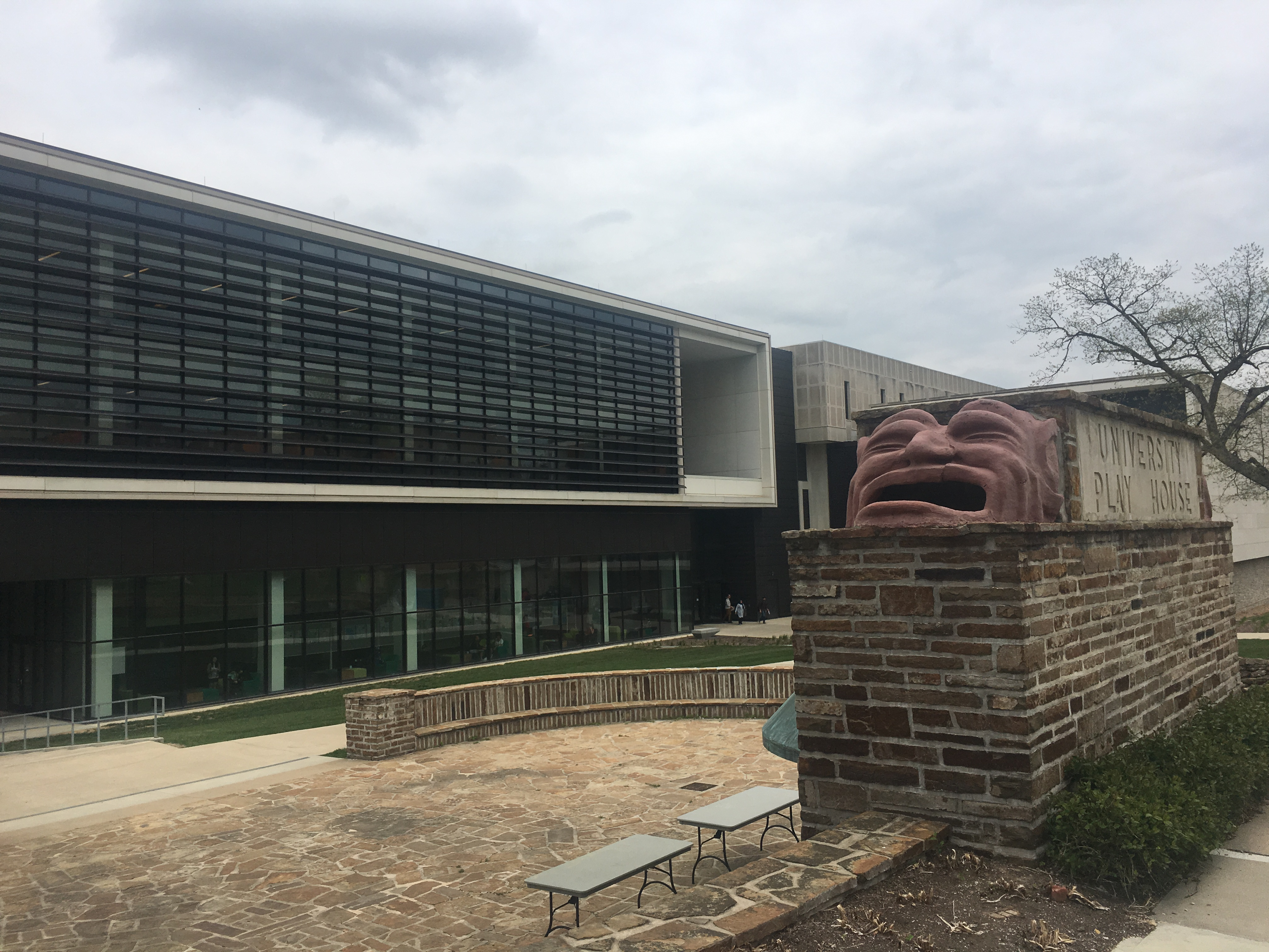 University of Missouri, Kansas City